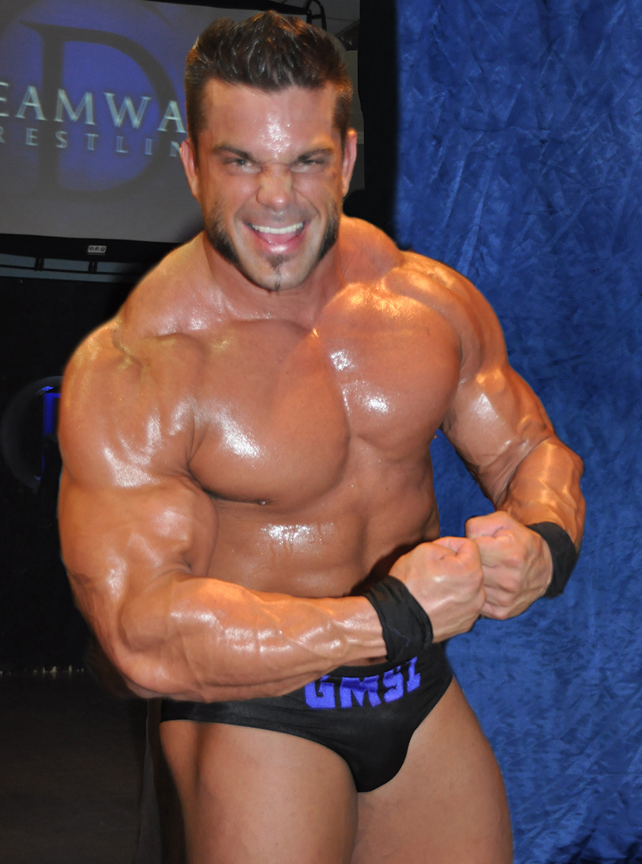 This is a picture I took of Brian Cage on November 1st 2014 in LaSalle IL.